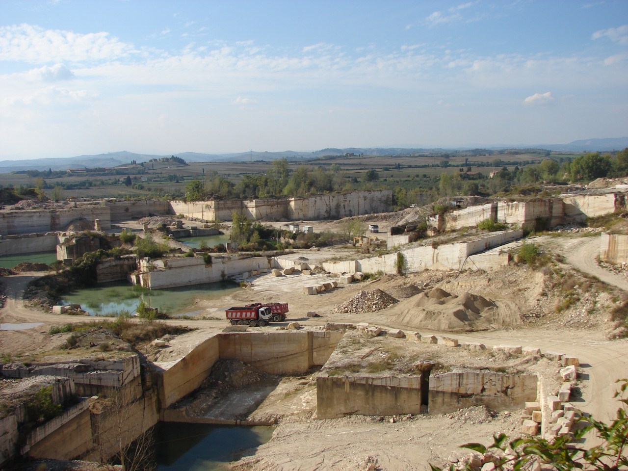 Pietre di Rapolano quarry in Tuscany